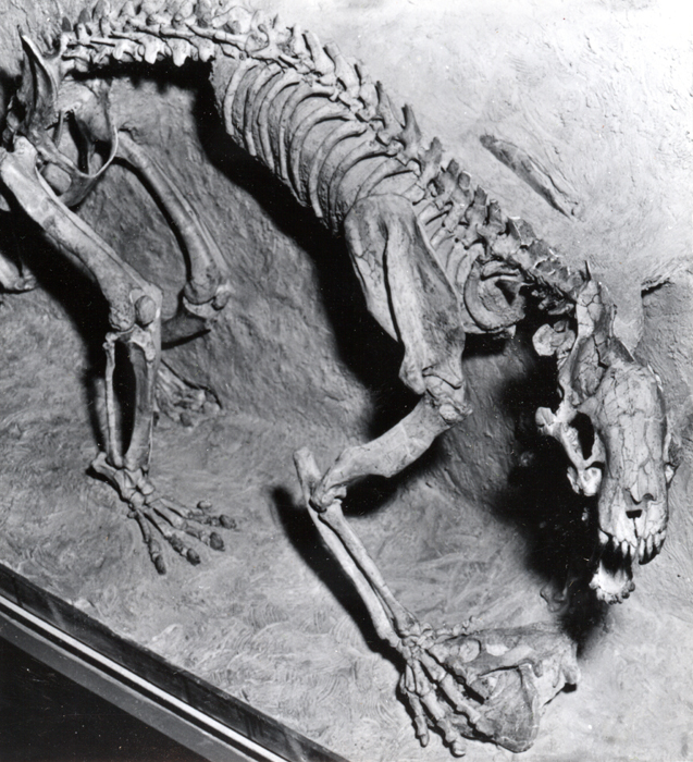 Hoplophoneus mentalis (Sinclair), mounted skeleton. Original description at the source site: Hoplophoneus Mentalis Sinclair, antero-lateral view of mounted skeleton; mounted by John Clark, Courtesy of Colorado University. Plate 28, in U.S.Geological Survey Professional paper 221. 1950.